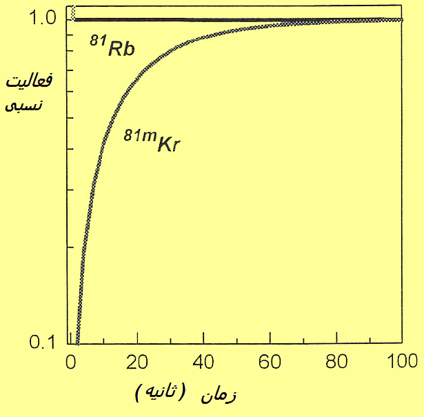 Secular equilibrium with sample Rb-Kr plots. Axial legend is in Persian.